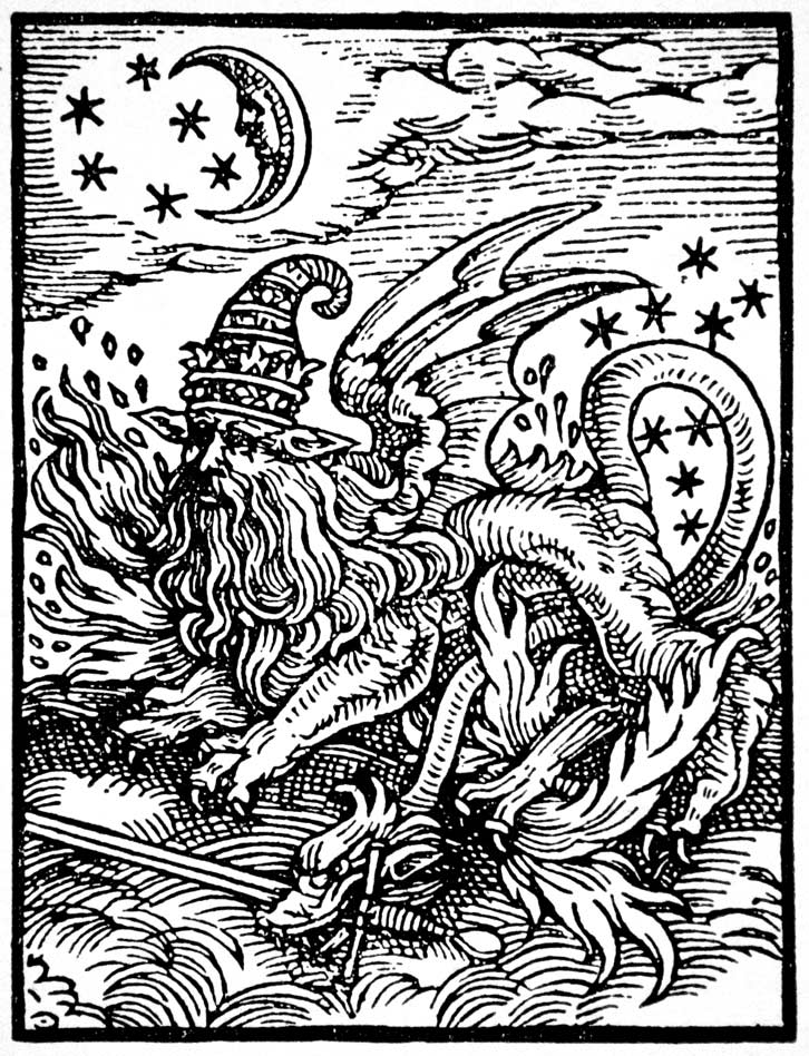 A salamander, attributed to Paracelsus by M.P. Hall (1928); however the beast depicted is uncharacteristically winged and has a lion's head. Another source identifies this illustration as "the Pope as a Monster" from a 1527 anti-papal tract by Andreas Osiander and Hans Sachs.[1] In Paracelsus' Auslegung, rather than using it to illustrate a salamander, he was merely giving his interpretation of this preexisting woodcut, which was commissioned by Osiander based on some old anti-Papal drawings found in the Carthusian monastery in Nuremberg. The originals are generally attributed to the Joachimite movement of the 13th century. Paracelsus' description of it (in German) says that this is a "salamander or desolate worm with a human head wearing a crown and a pope hat."